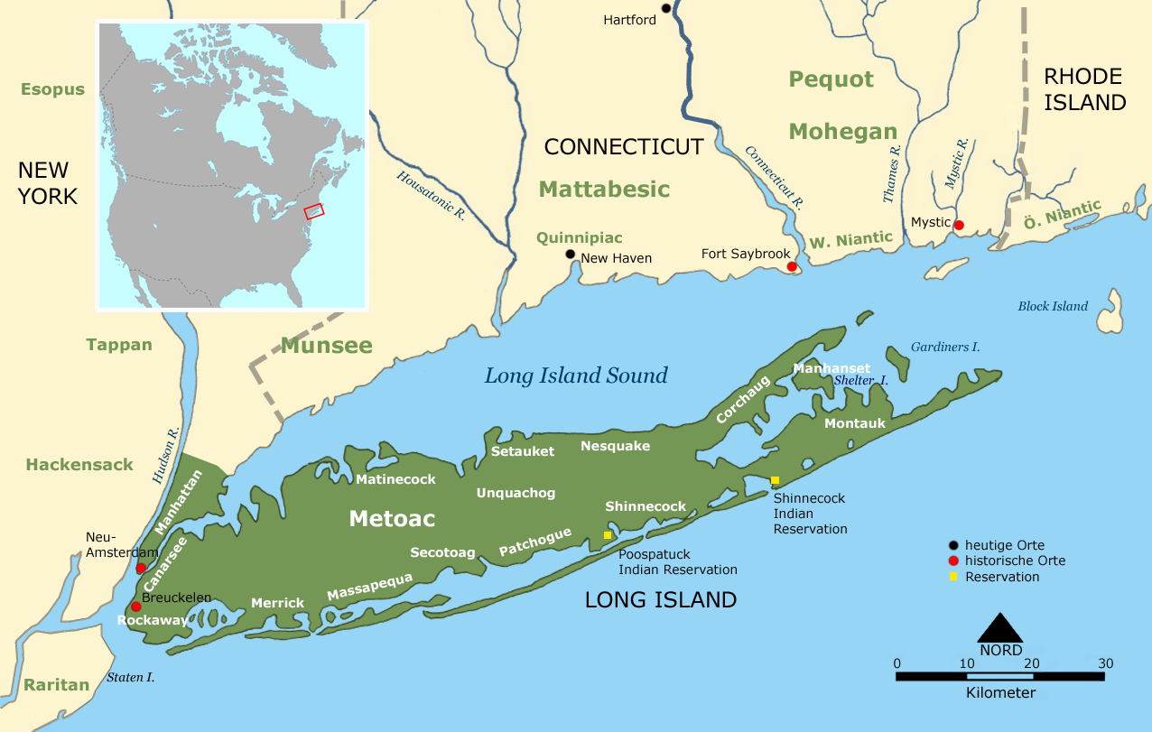 Description: Tribal territories of Long Island tribes Creator: User:Nikater and User:ish ishwar (small map) Uploader: User:Nikater Date: Aug 15 2006 Other Versions: no License status